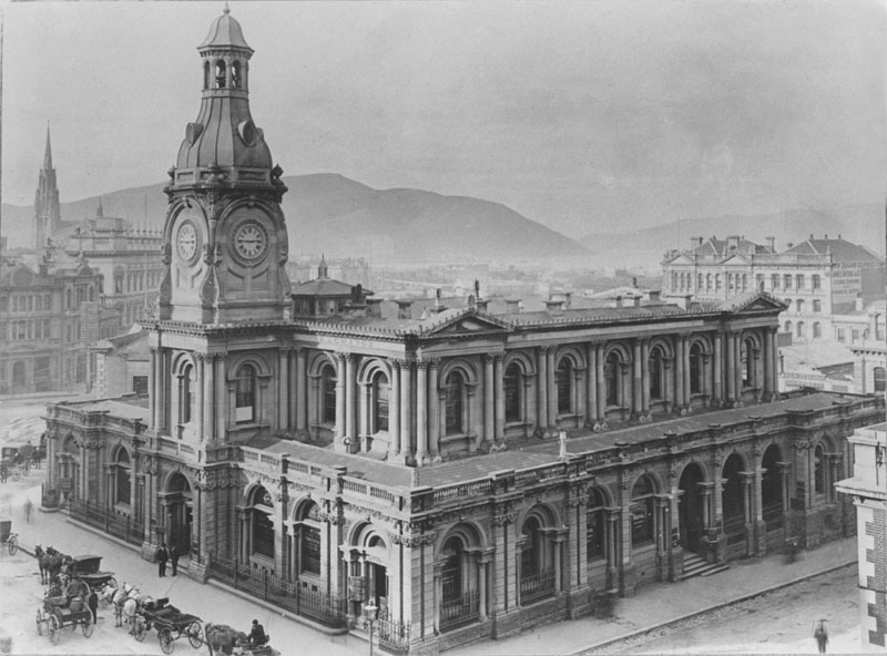 Elevated south-west view of the first building that housed the University of Otago between 1871 and 1878. The building was designed by the architects Mason and Wales and was originally intended to be Dunedin’s post office. Dominating the stock exchange site in Princes Street, it was completed between the years 1864 to 1868. In the 1960s the building was demolished to make way for John Wickliffe House.